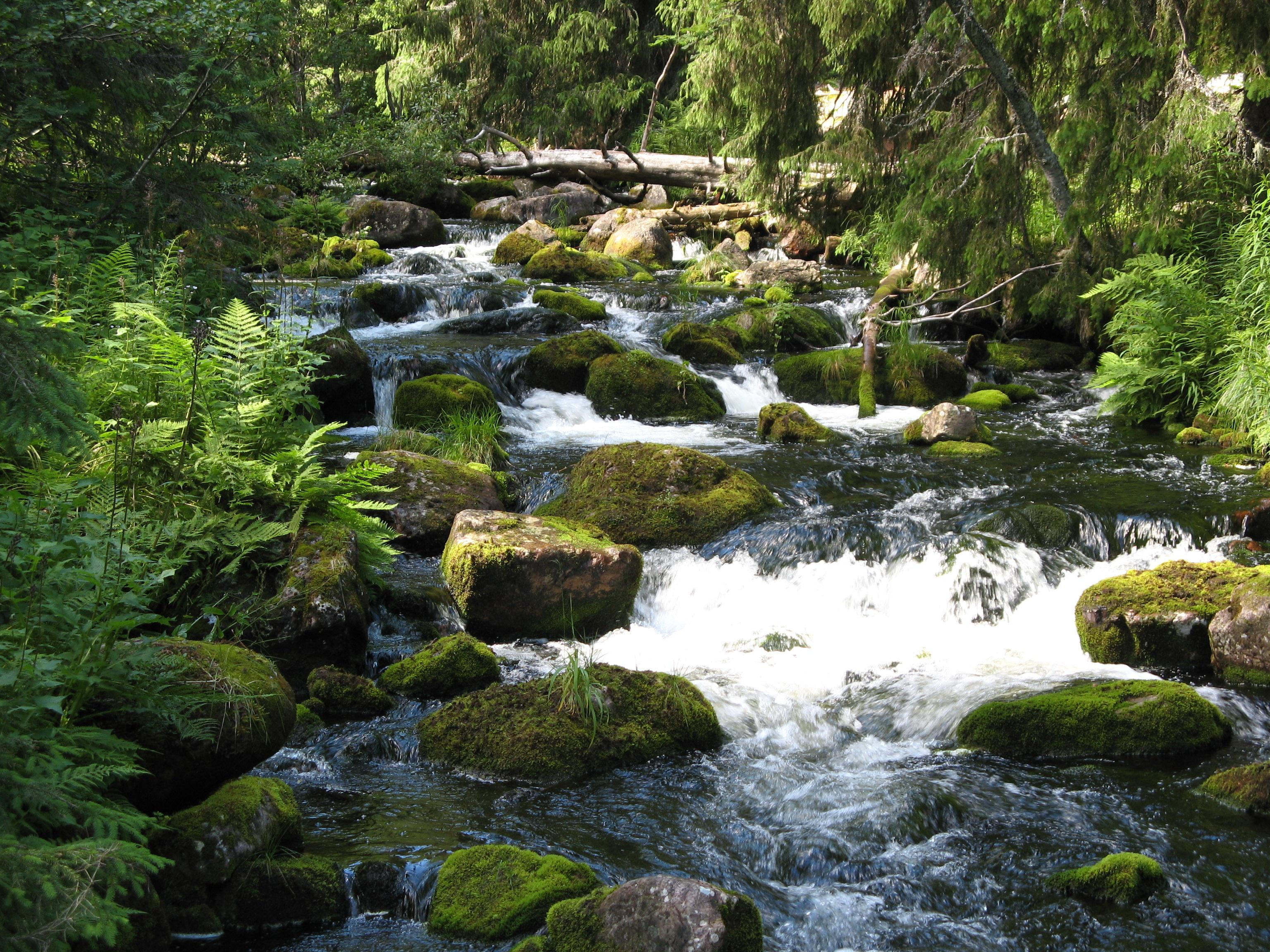 Brook in Fulufjällets Nationalpark.